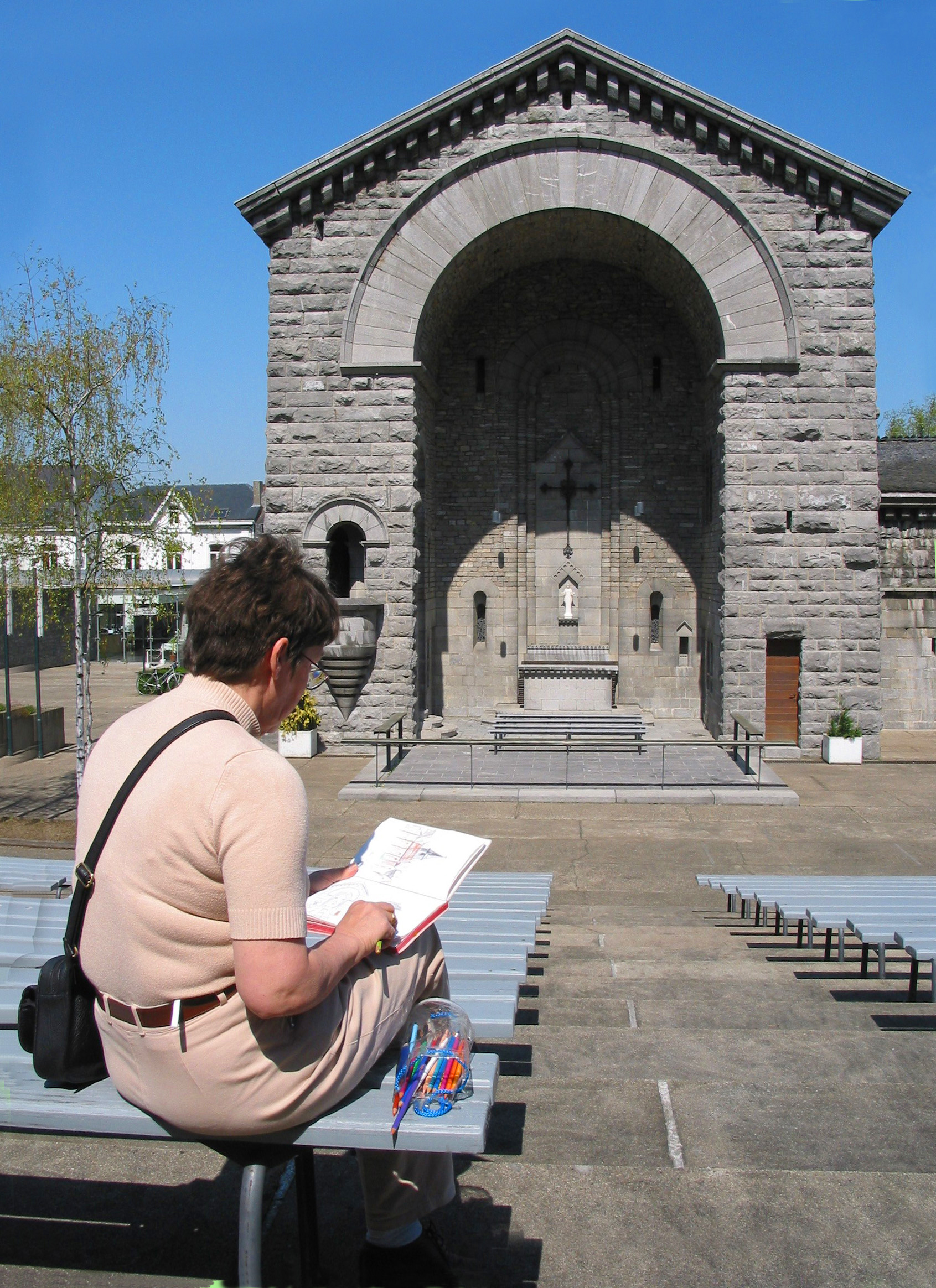 Beauraing (Belgium), the Lady chapel.